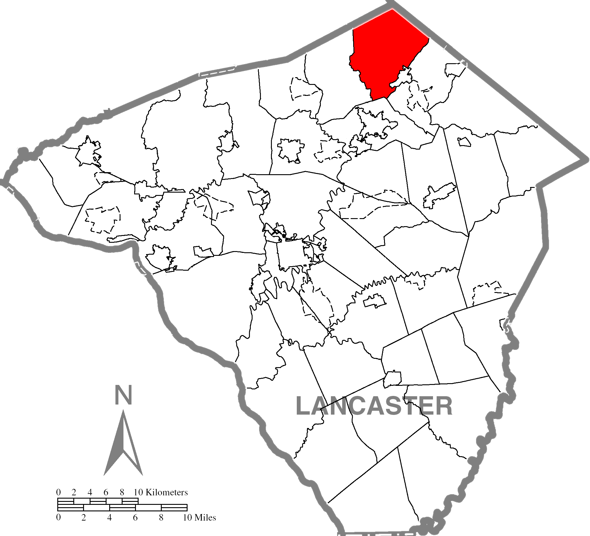 Highlighted Lancaster County map of West Cocalico Township.